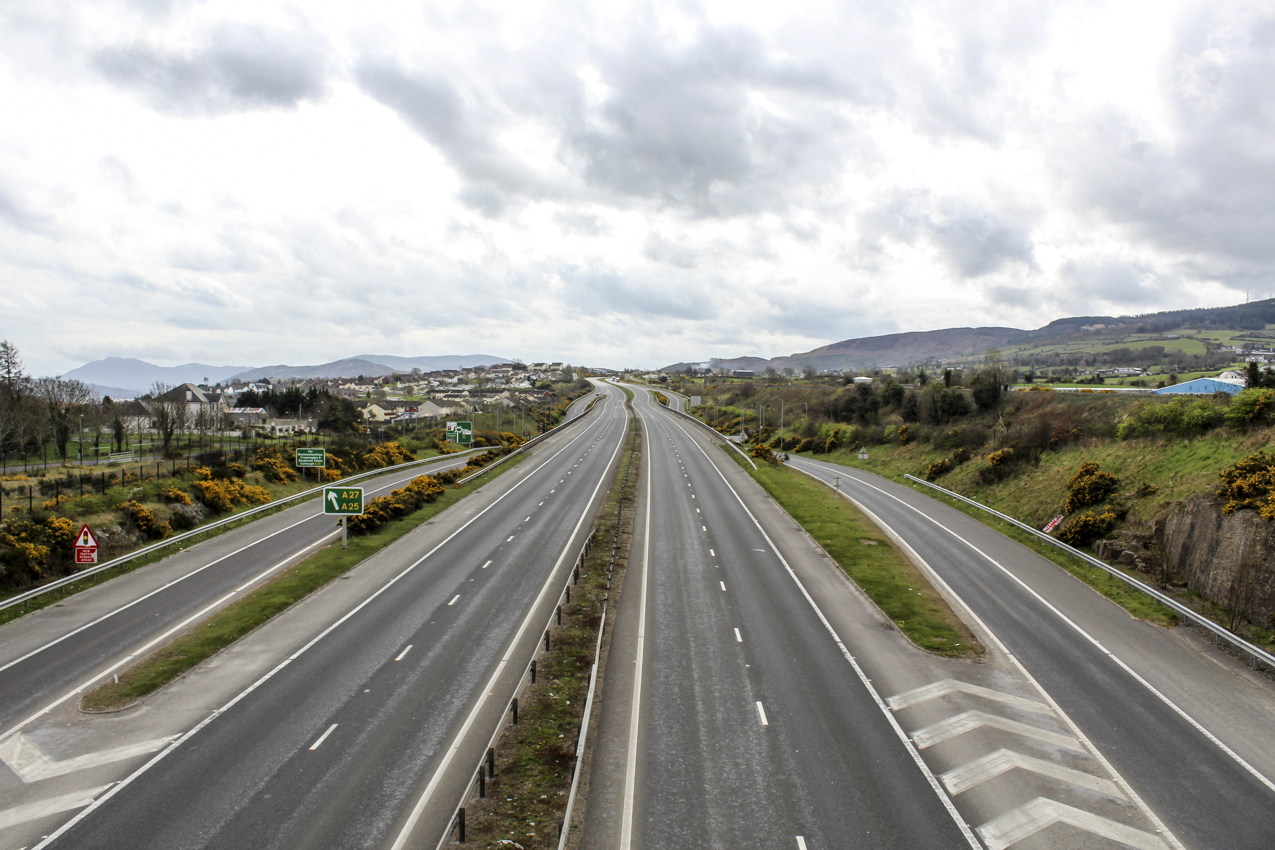 A deserted A1 near Newry on Saturday 4th April 2020 due to the COVID-19 outbreak.